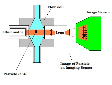 This is an image of a vision based particle counter.